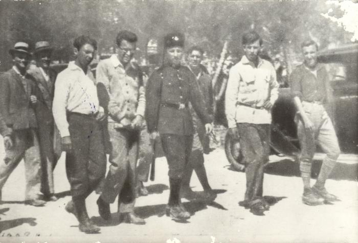 Members of Brit HaBirionim group, among them Abba Ahimeir and Haim Dviri, are brought before a court of law in Jerusalem.